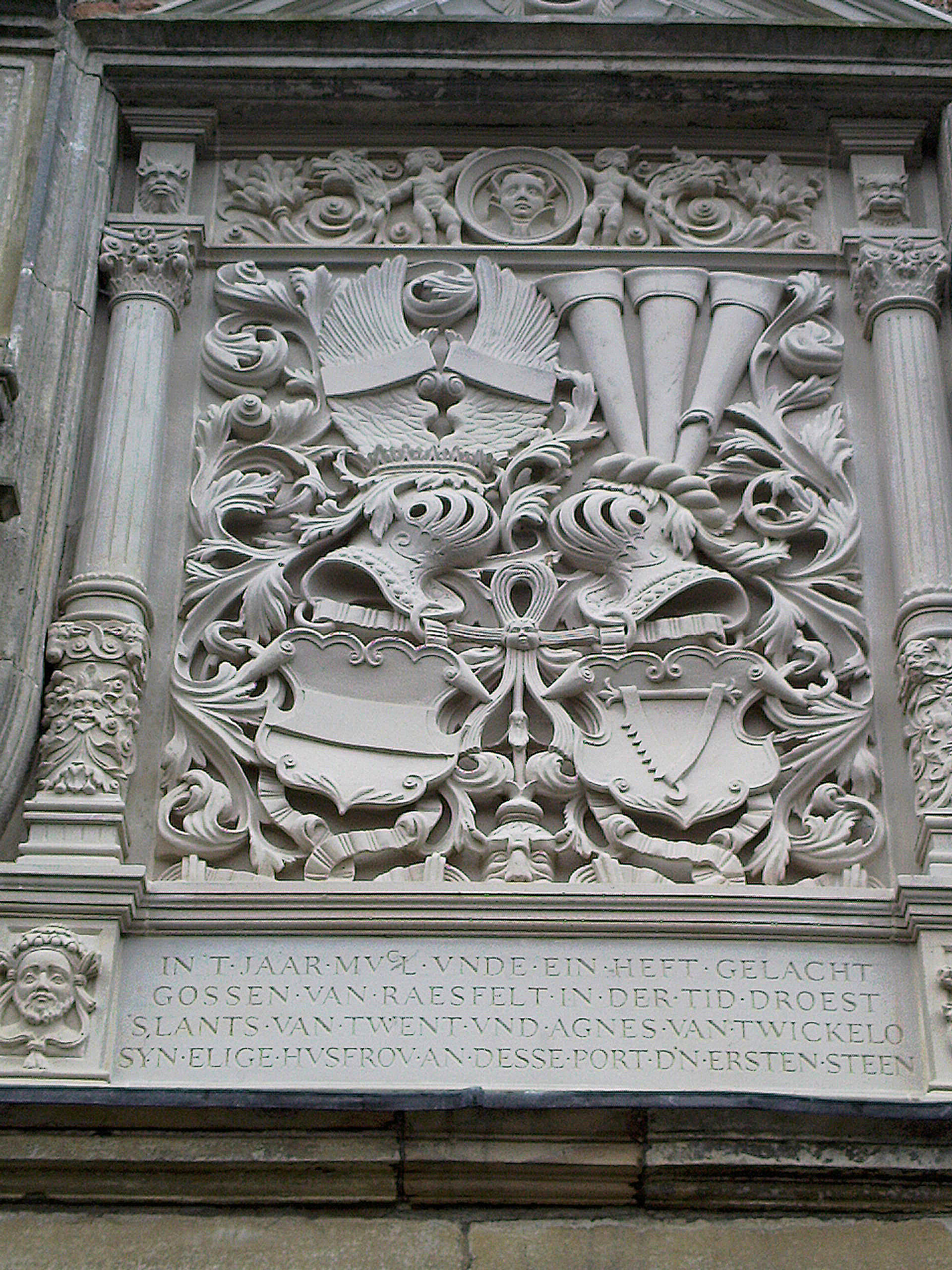 Part of the relief on Twickel Castle in the Netherlands. Copy after the restoration